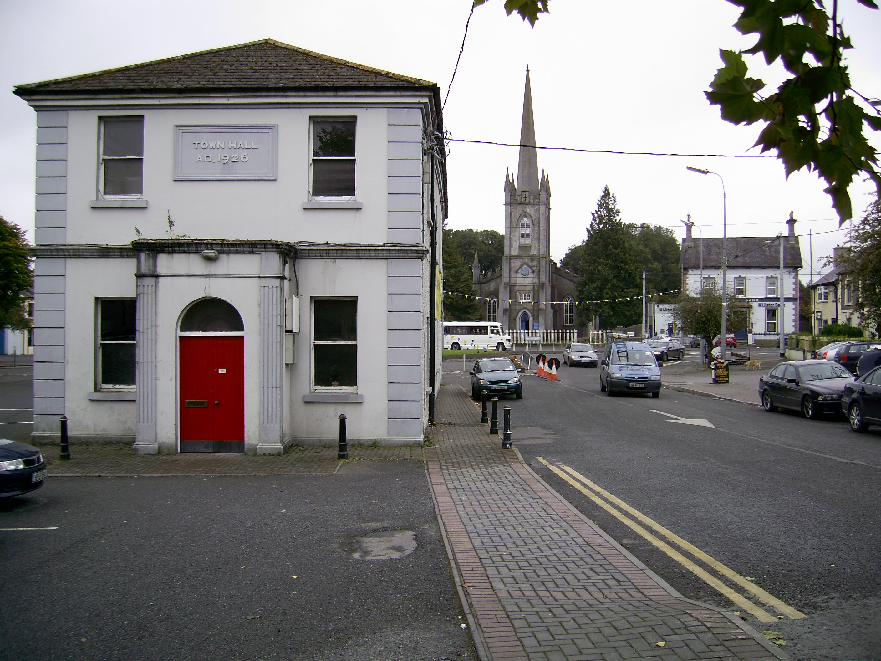 Town_halles.JPG